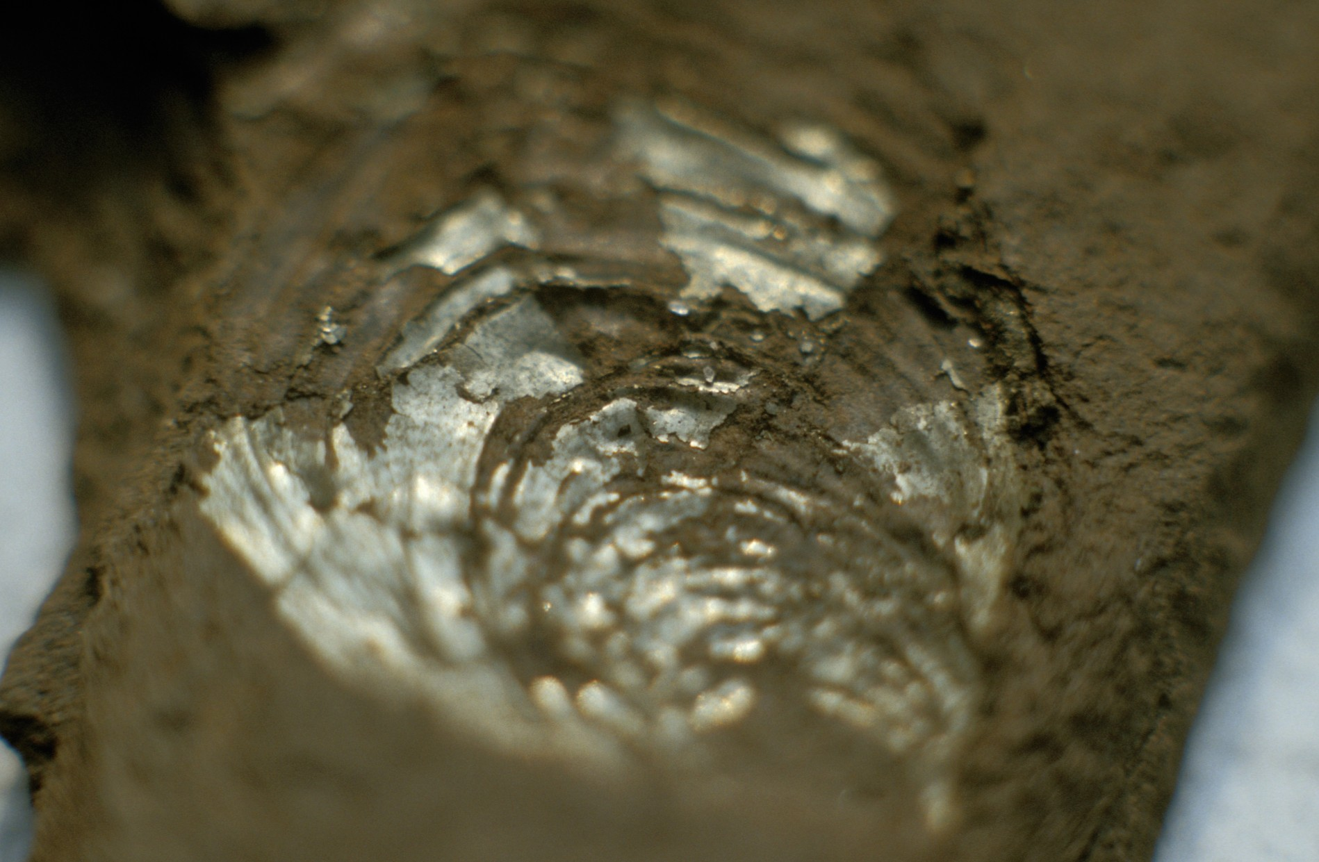 Pyrite which replaced a fossil mussel shell and is now the fossil. Found in sedimentary organic material from an oxygen-free aquifer at a depth of 17.5 m. Image width: 23 mm